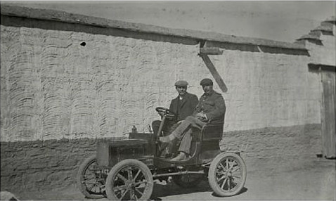 Frederick O'Connor (representative of English Trade in Tibet for British Raj, and secretary of Younghusband) in a Peugeot car, one of the first two in Tibet, in 1907. The car was in the plain in front of the Gyantse Dzong(fortress).